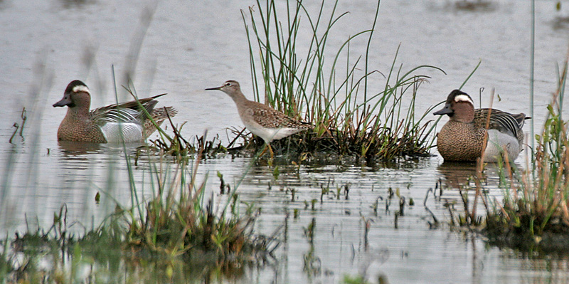 Garganey Anas querquedula at/ near Hodal in Faridabad District of Haryana, India.